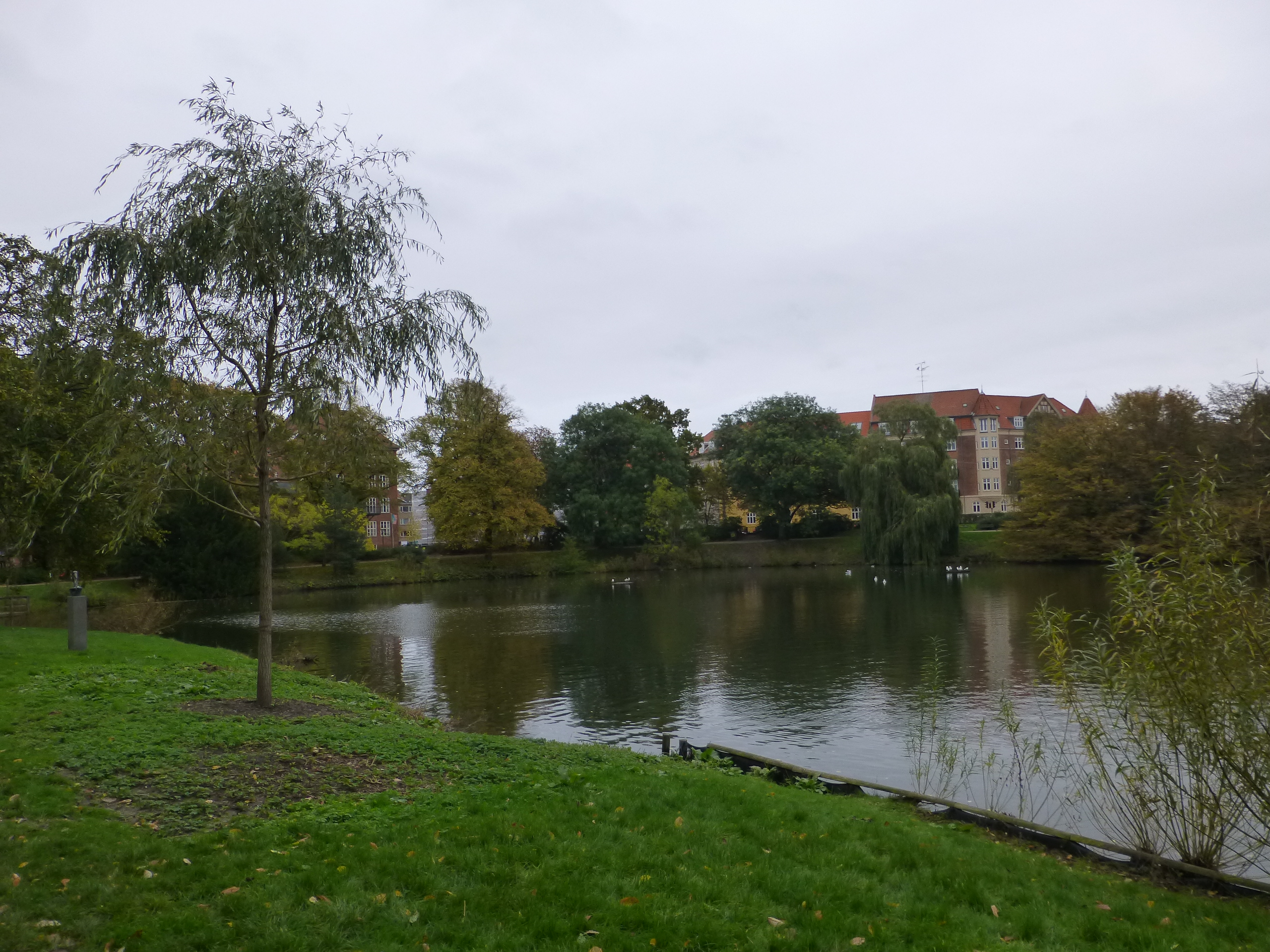 The park Kildevældsparken with the lake Kildevældssøen in Østerbro in Copenhagen.